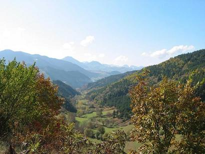 Sofie's photo